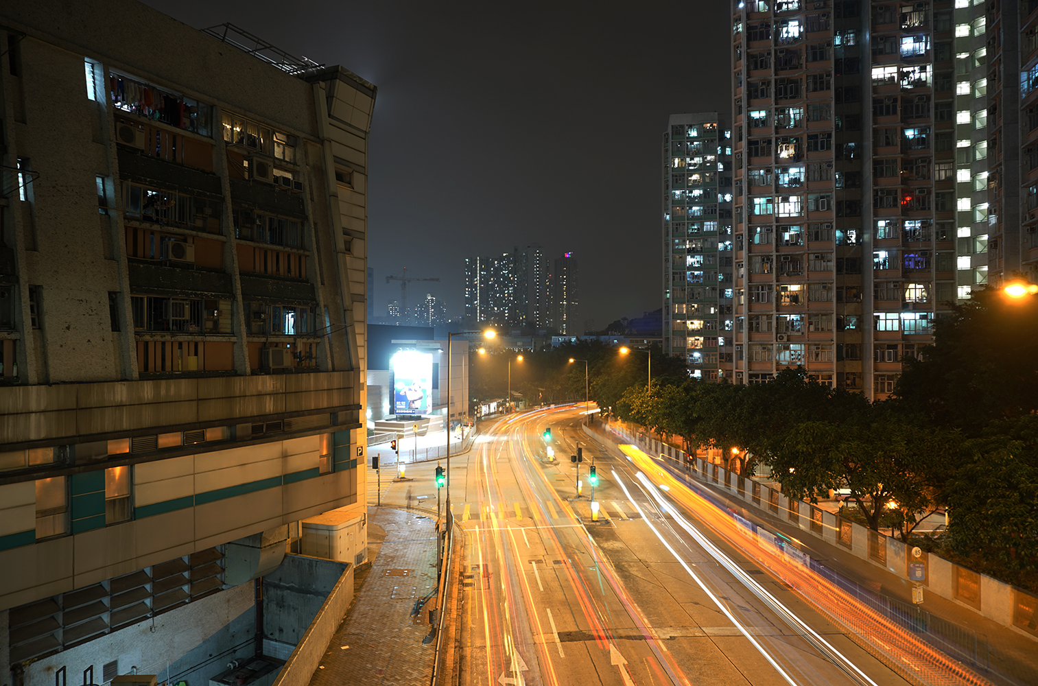 Junction Road in Lok Fu, Hong Kong.